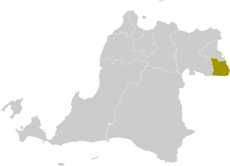 Locator map of South Tangerang Municipality